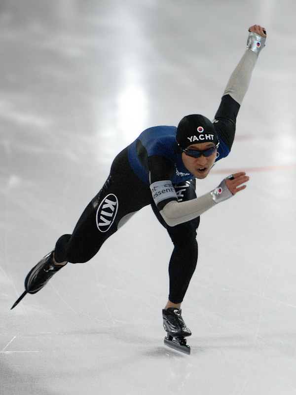 Kyou-Hyuk Lee at the 2008 World Cup in Hamar.